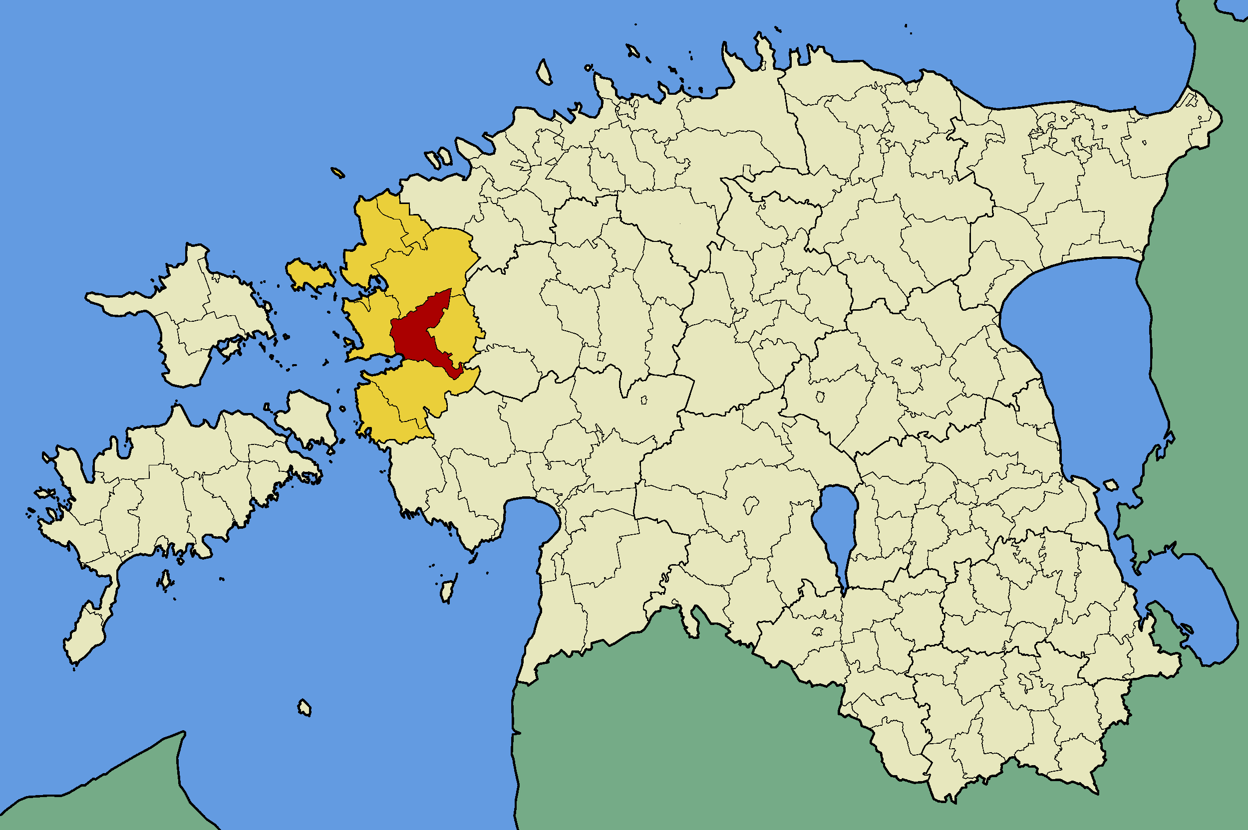 Map of Estonia with borders of municipalities (parishes). Lääne county and Martna municipality emphasized.